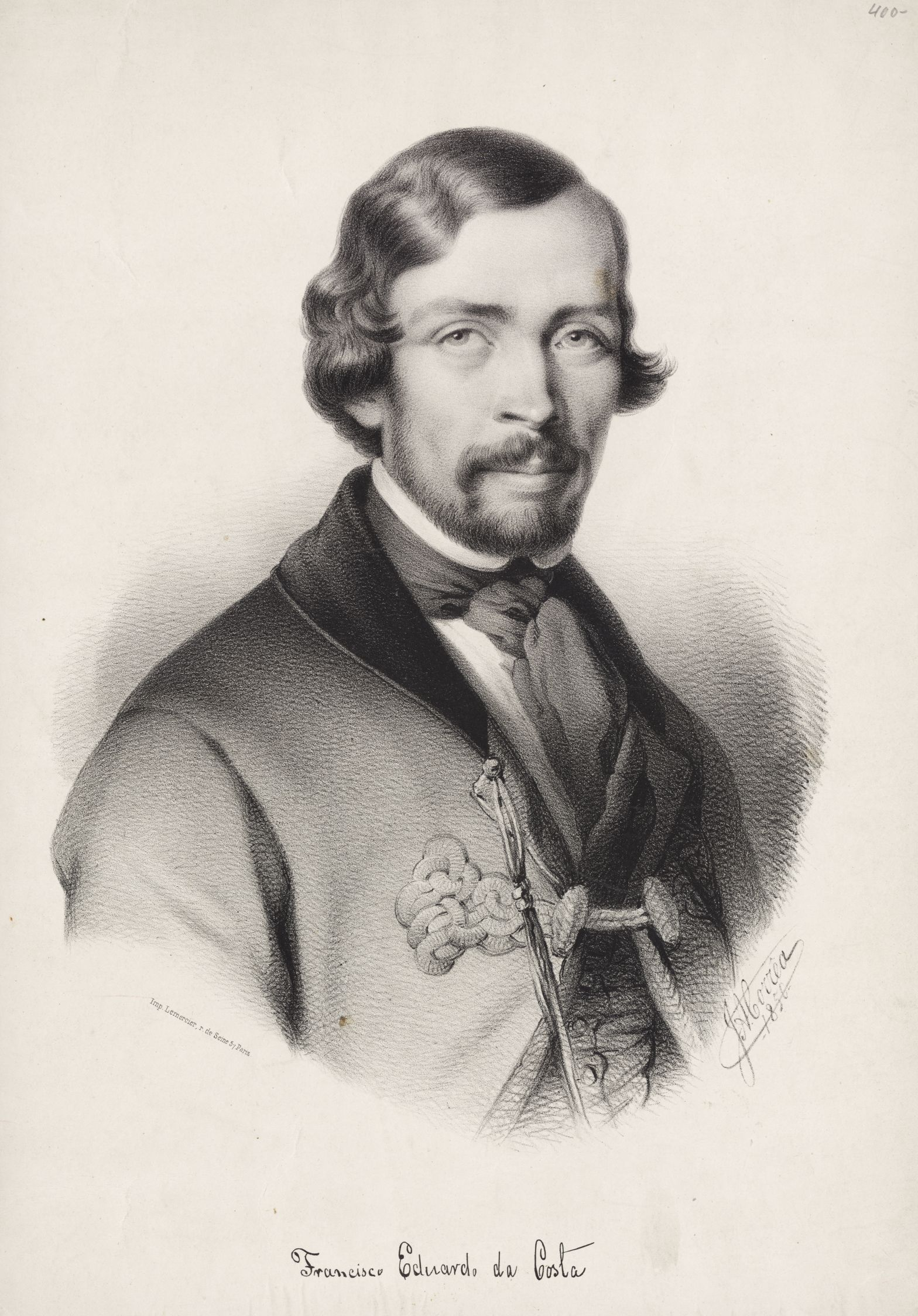 Francisco Eduardo da Costa